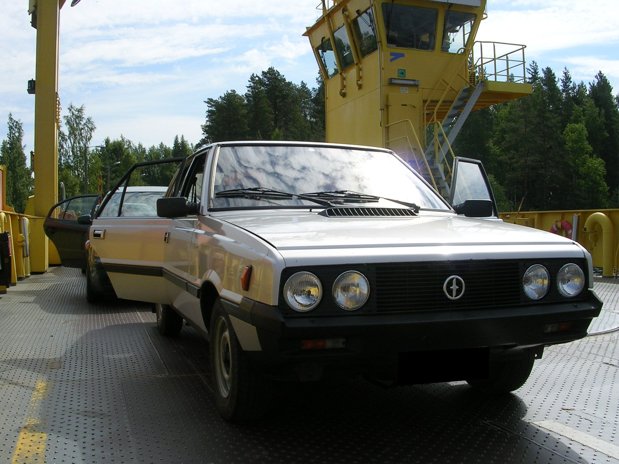 FSO Polonez MR'87 1.6 SLE in a Finnish cable ferry.